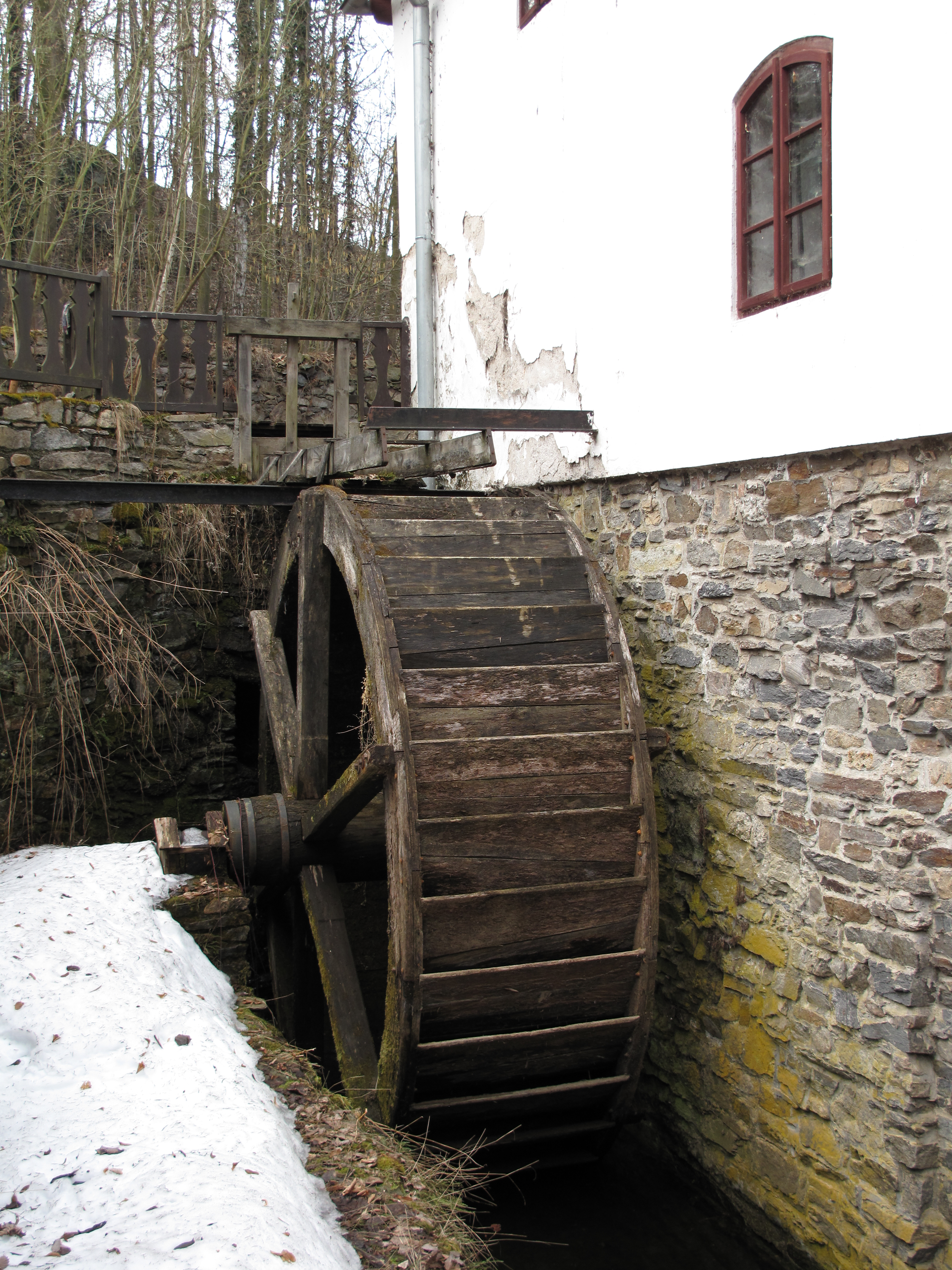 Denemark Mill's millwheel, Kutná Hora District, Czech Republic. This photograph was taken within the scope of the 'Czech Municipalities Photographs' grant.